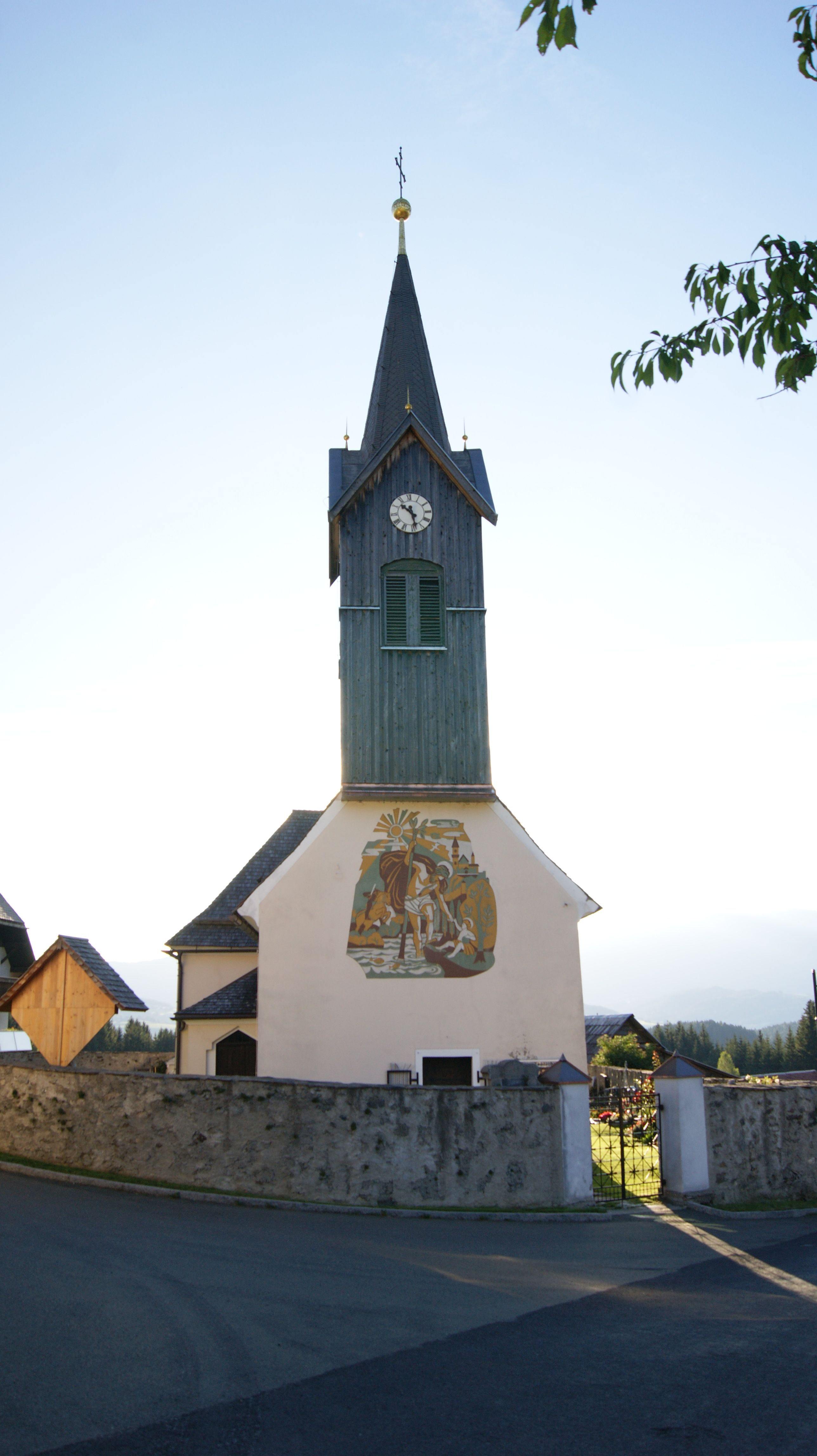 Church in Zeutschach, Styria, Austria.